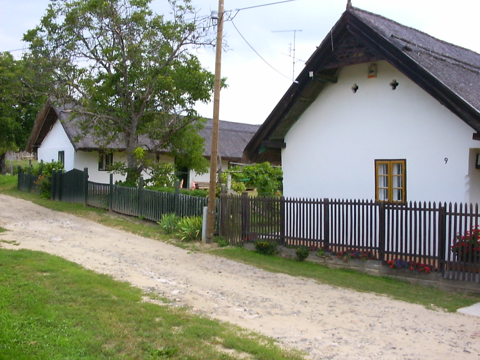 Tényő, old houses in the Hentes utca (en. Butcher's street)